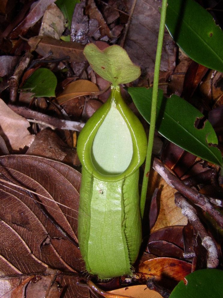 Nepenthes hirsuta